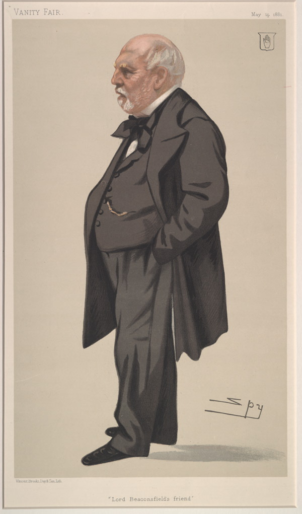 Men of the Day No.243: Caricature of Sir Philip Rose Bt. Caption reads: "Lord Beaconsfield's friend"